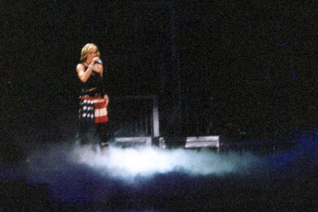 Madonna concert in Los Angeles back in '01